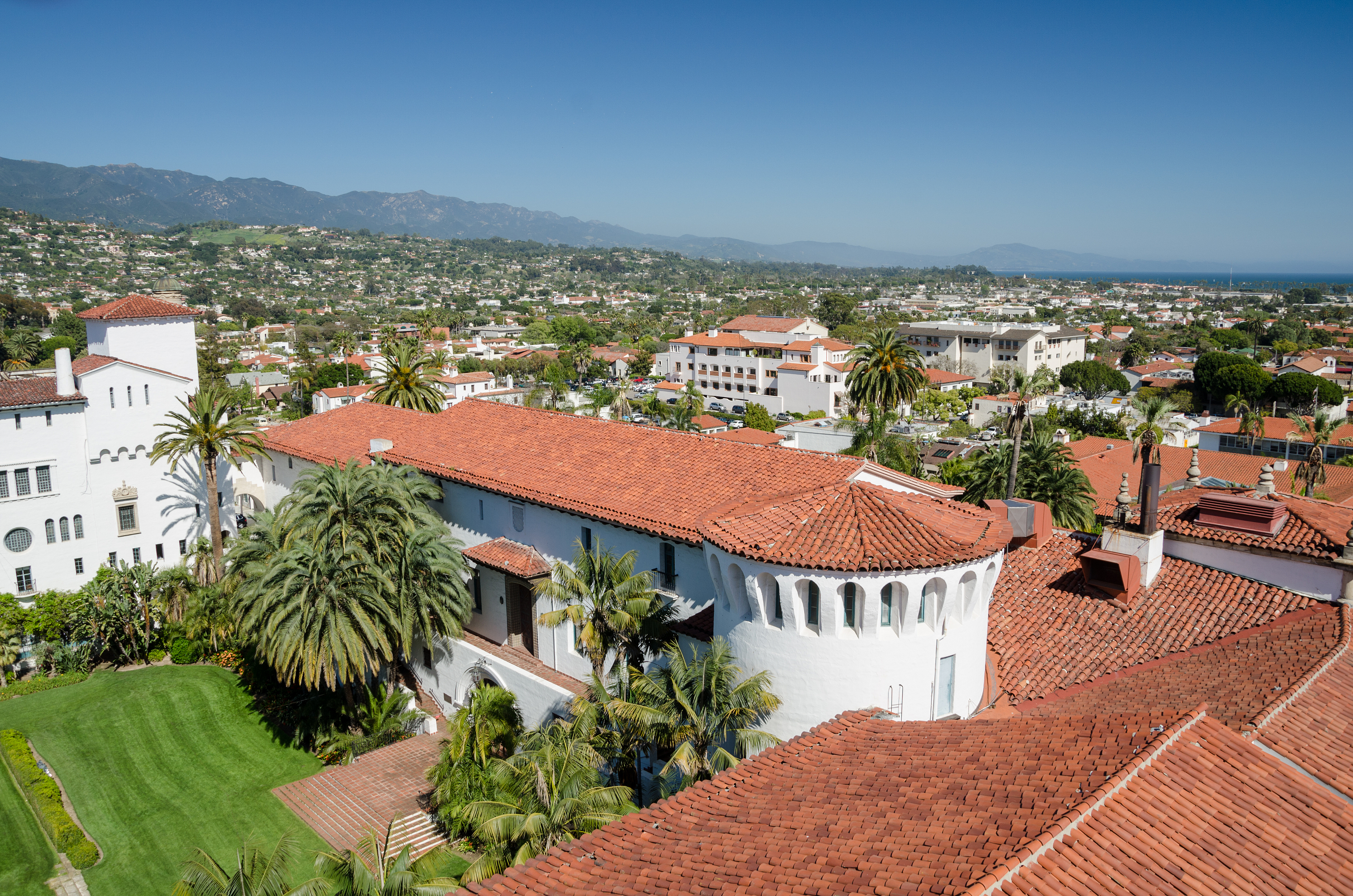 View from Santa Barbara's courthouse tower looking east.